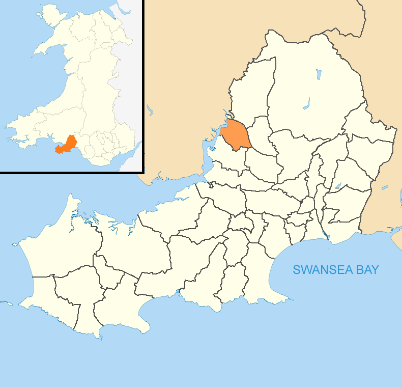 Location map of the community (civil parish) of Grovesend and Waungron in the City and County of Swansea, Wales